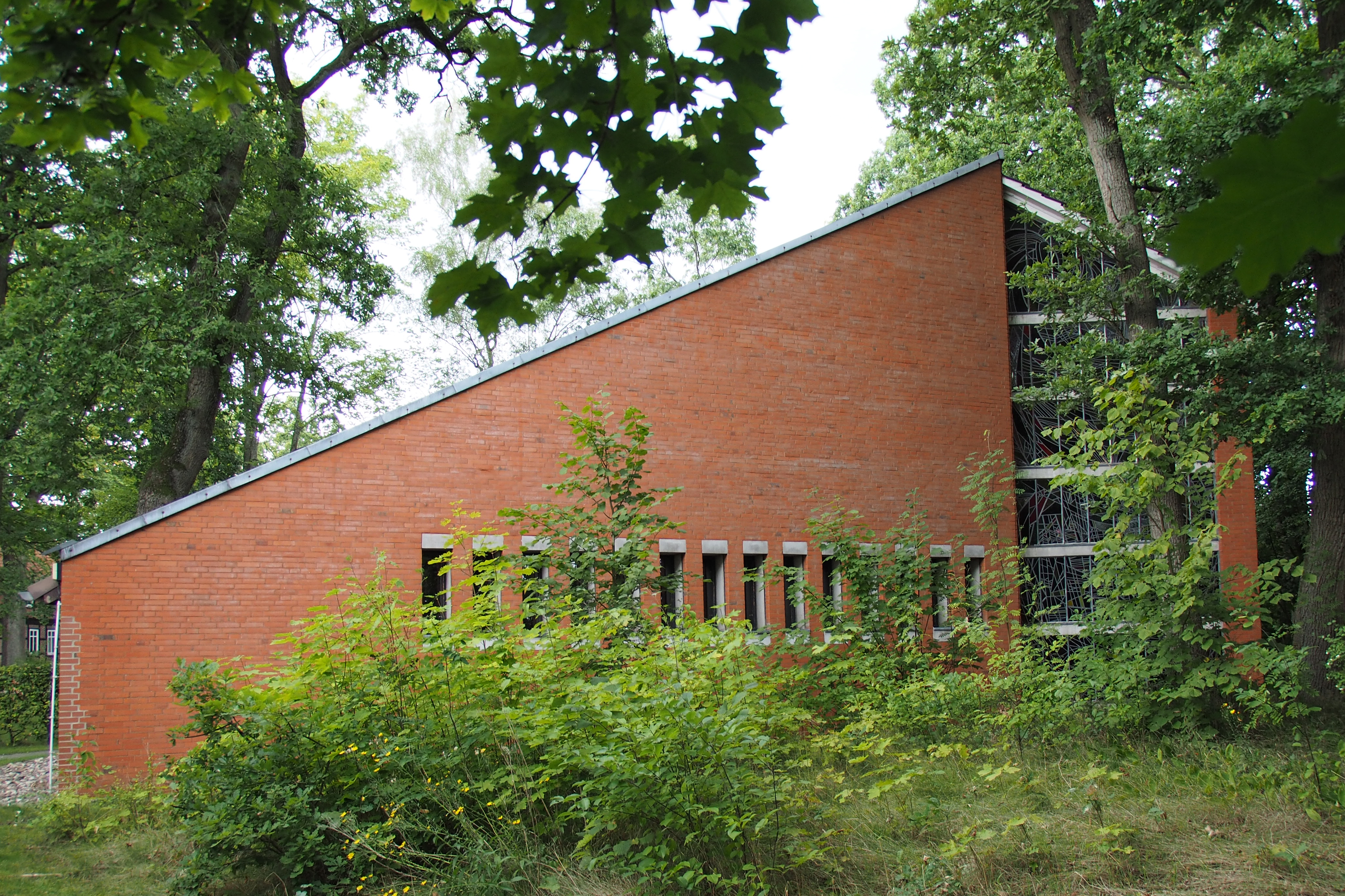 Chappel of Fachhochschule für Interkulturelle Theologie Hermannsburg